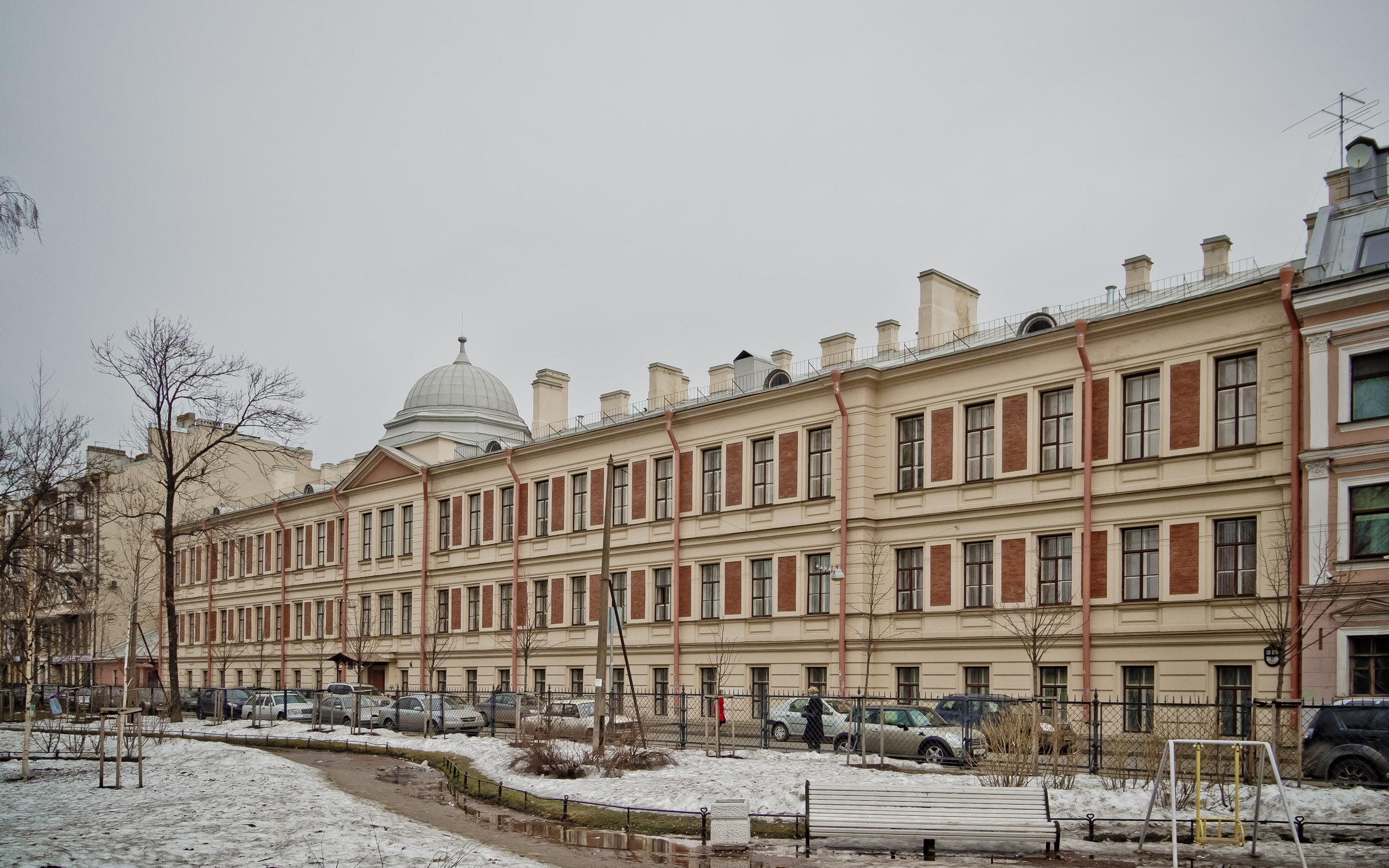 Saint Petersburg, 31, Blokhina street. High school №77.